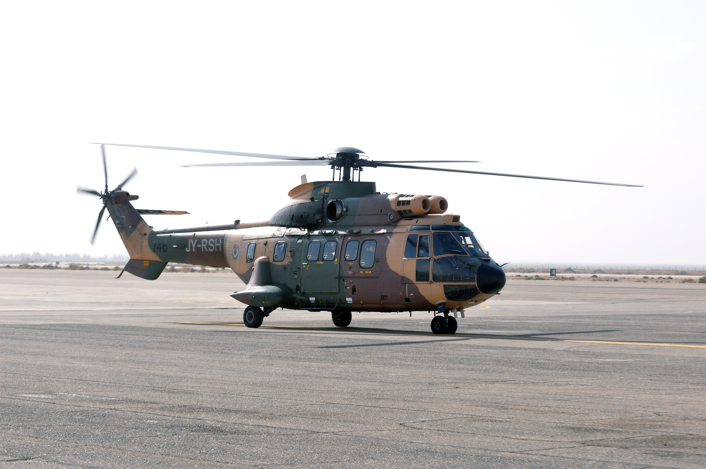 A helicopter of the Royal Jordanian Air Force at Mwaffaq Salti Air Base, Azraq, Jordan, on October 28, 2009. (U.S. Army photo by Staff Sgt. Jim Greenhill, Released)